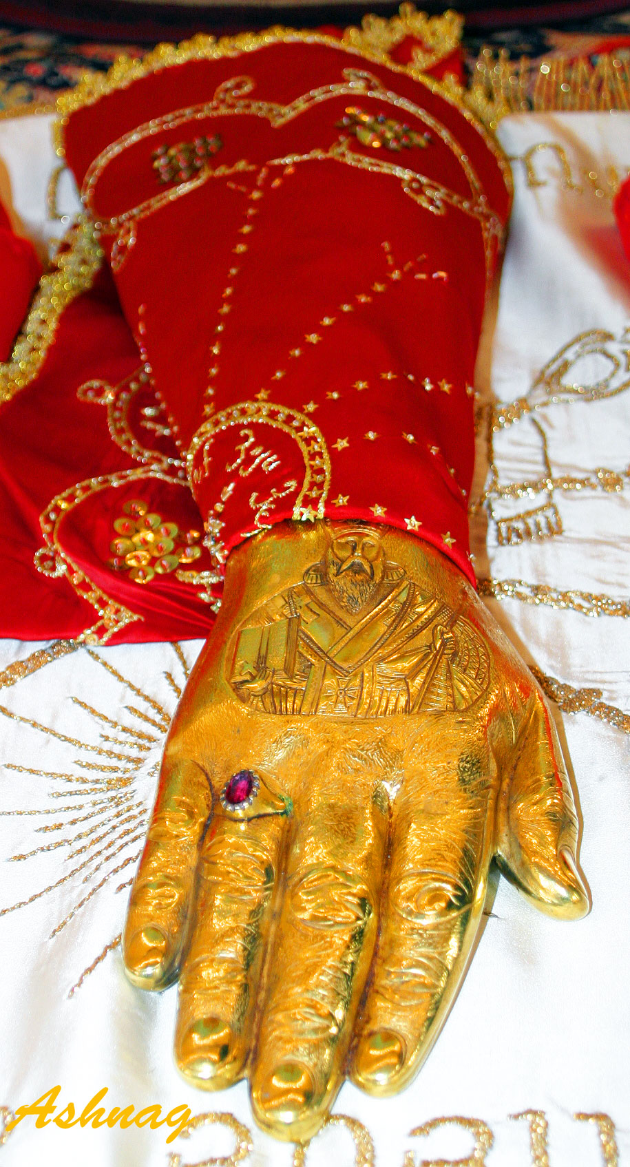 The right hand of Saint Gregory the Illuminator in the museum of the Holy See of Cilicia.